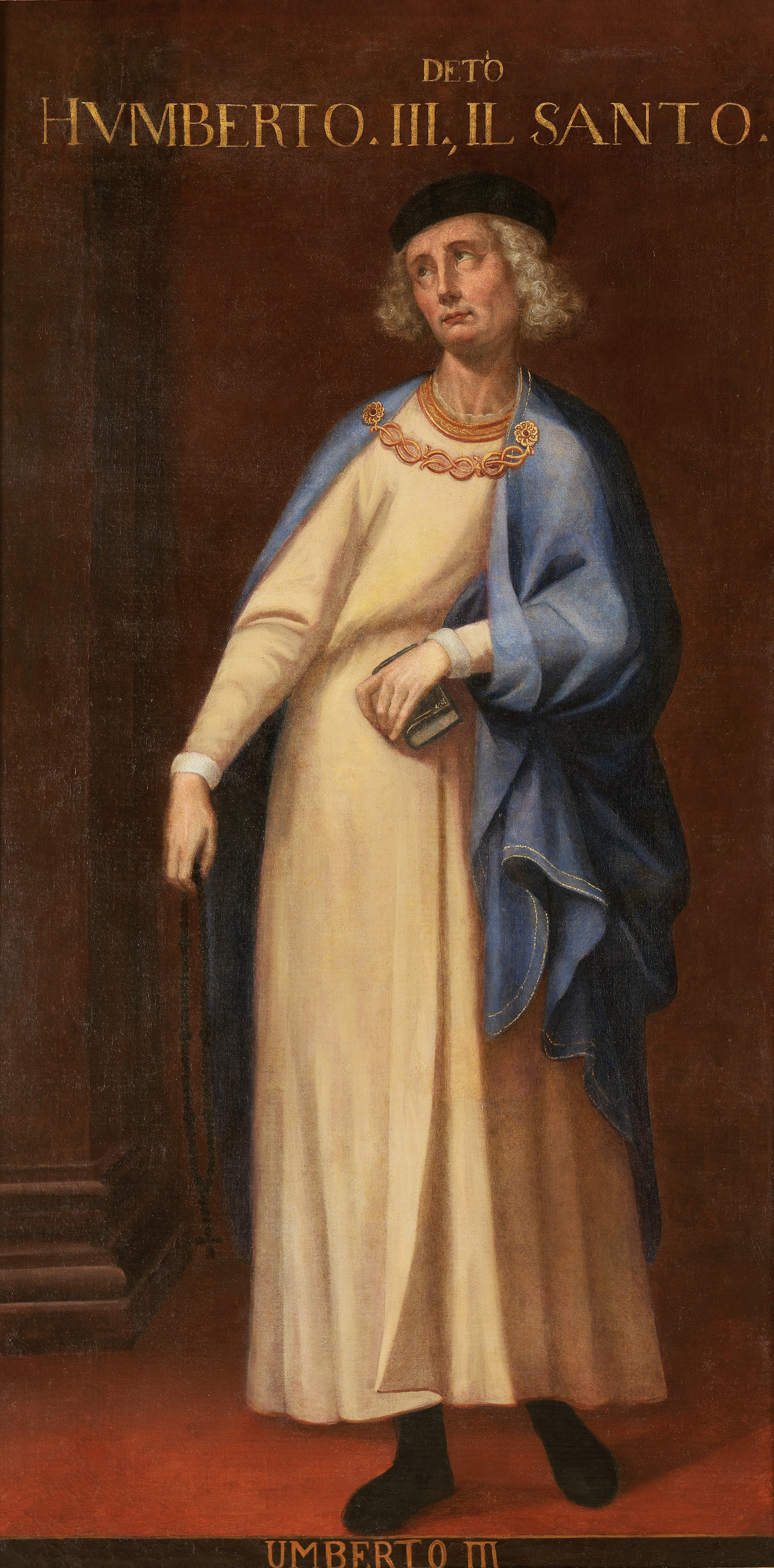 portait of Blessed Humbert III